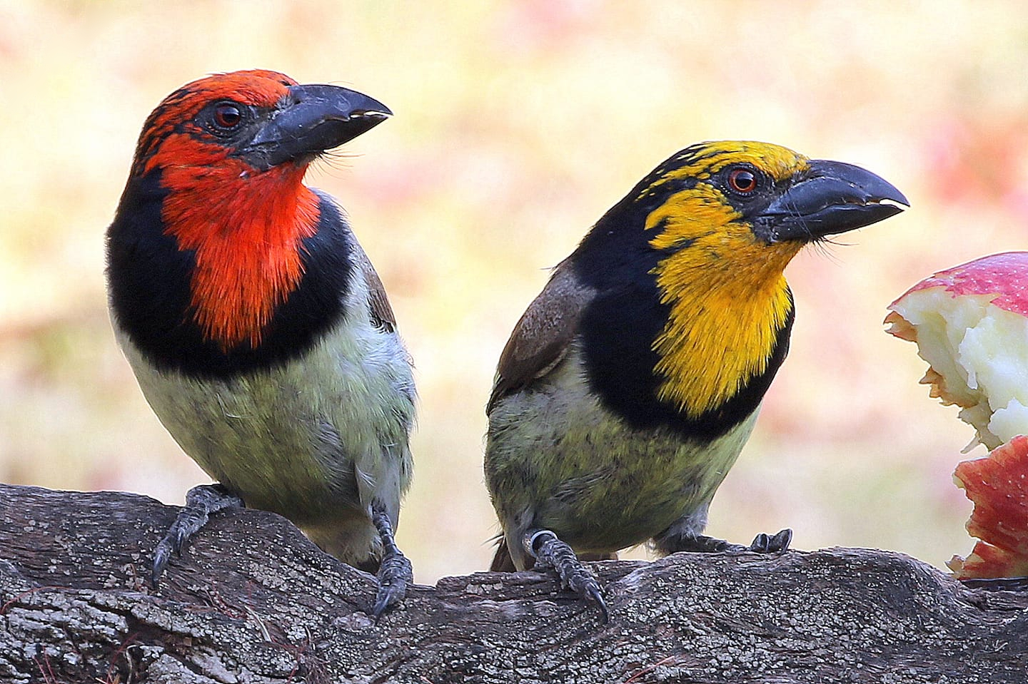 Lybius torquatus - Two Black-collared barbets - the yellow barbet is rare ( xanthocroic ). Garden in Kloofendal, Roodepoort, Johannesburg, South Africa